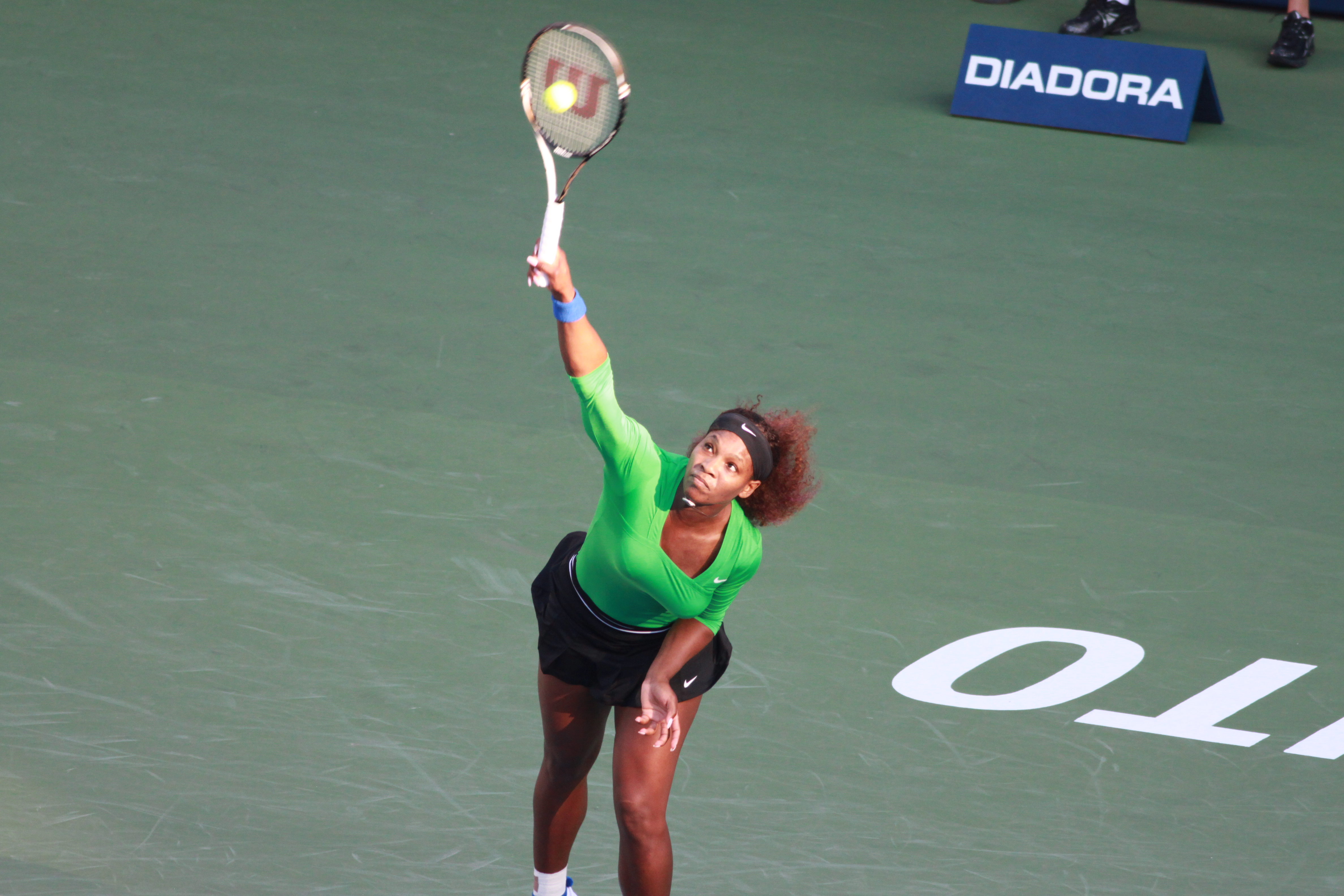 Rogers Cup 2011 Semifinal 2 Serena Williams vs Victoria Azarenka